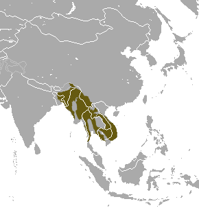 Northern Pig-tailed Macaque (Macaca leonina) range